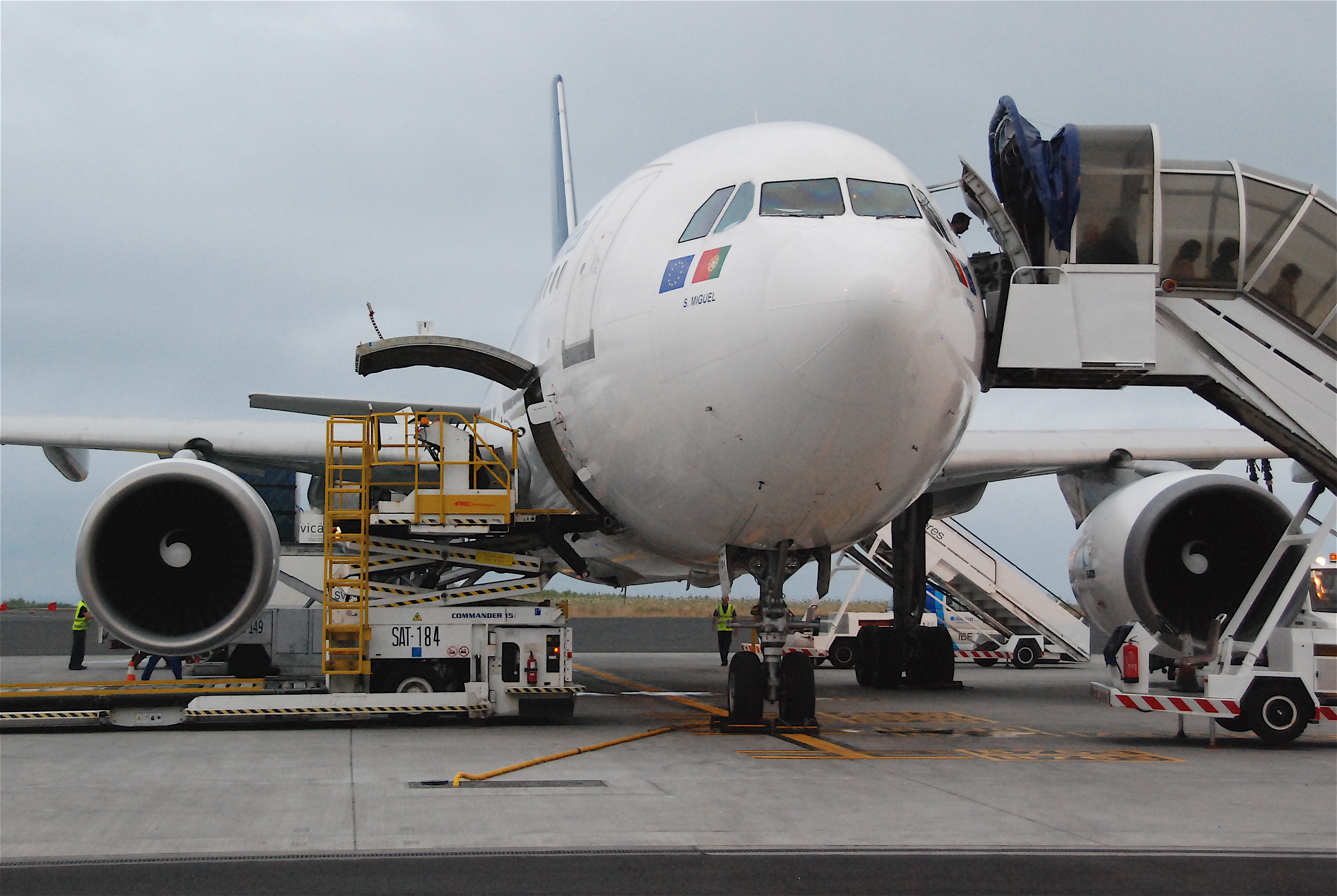 SATA International Airbus A310-304; CS-TGV@PDL;10.07.2011/605iv